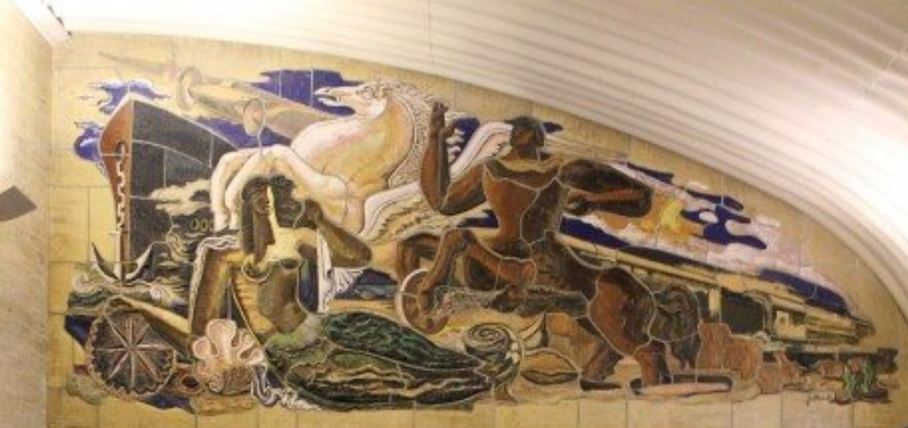 Ceramic relief by Jo MAES "The Future of Post Service", seen in the former post office in Oostende/Belgium